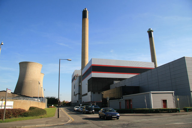 Scottish & Southern Slough Power Station This was until recently the private power station for Slough Trading Estate. This has been supplying heat and power to the estate since 1920. Originally coal fired, it has now gone over to predominantly biomass (wood) firing. There is also some natural gas and heavy fuel oil in the mix. The modern building on the right houses a wood briquetting plant. The tall building in front of the chimney houses one of the modern wood fired plants including a Peter Brotherhood steam turbine with roof mounted air-cooled condenser. The tall building beyond the chimney houses two fluidised bed boilers that originally burnt coal but now burn wood. Older buildings house further older boilers (gas fired) and the four remaining steam turbines (one Siemens, one Brotherhood and two by C A Parsons. There is also a John Brown gas turbine of 23 MW. The two cooling towers are also part of the plant although there is also pass-out steam at 14 bar to other users on the estate. It was recently acquired by Scottish & Southern, presumably to improve their CO2 emissions as it is biomass fired.